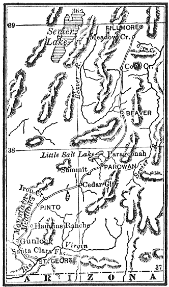 Map of southern Utah Territory, circa 1857, the time of the Mountain Meadows massacre